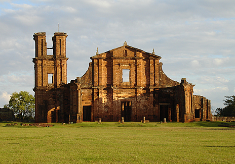 São Miguel das Missões, Rio Grande do Sul - Brazil.